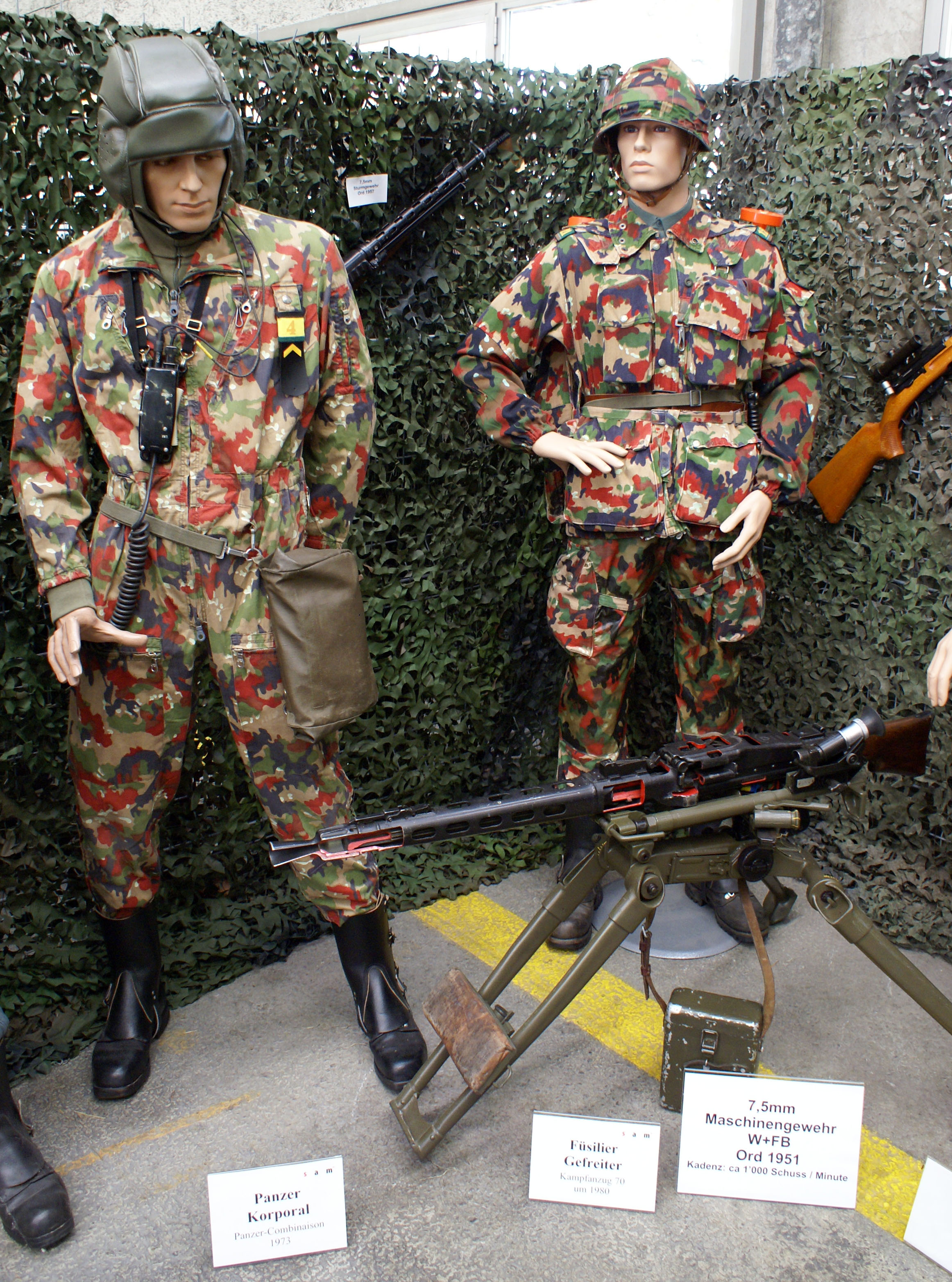 Swiss Army. Left tank corporal, tank jumpsuit 1973. Right, infantry private, battle suit of around 1980. Below, 7.5mm machine gun 1951 (MG 51). Swiss Army Museum.